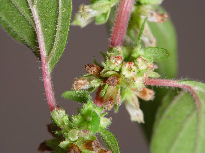 Description Parietaria judaica, Family Urticaceae Date July 10, 2002 Location San Francisco, California Photographer Franco Folini